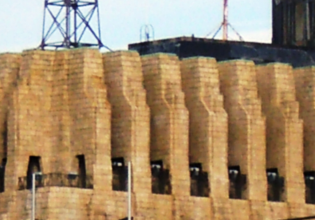 Personal collection